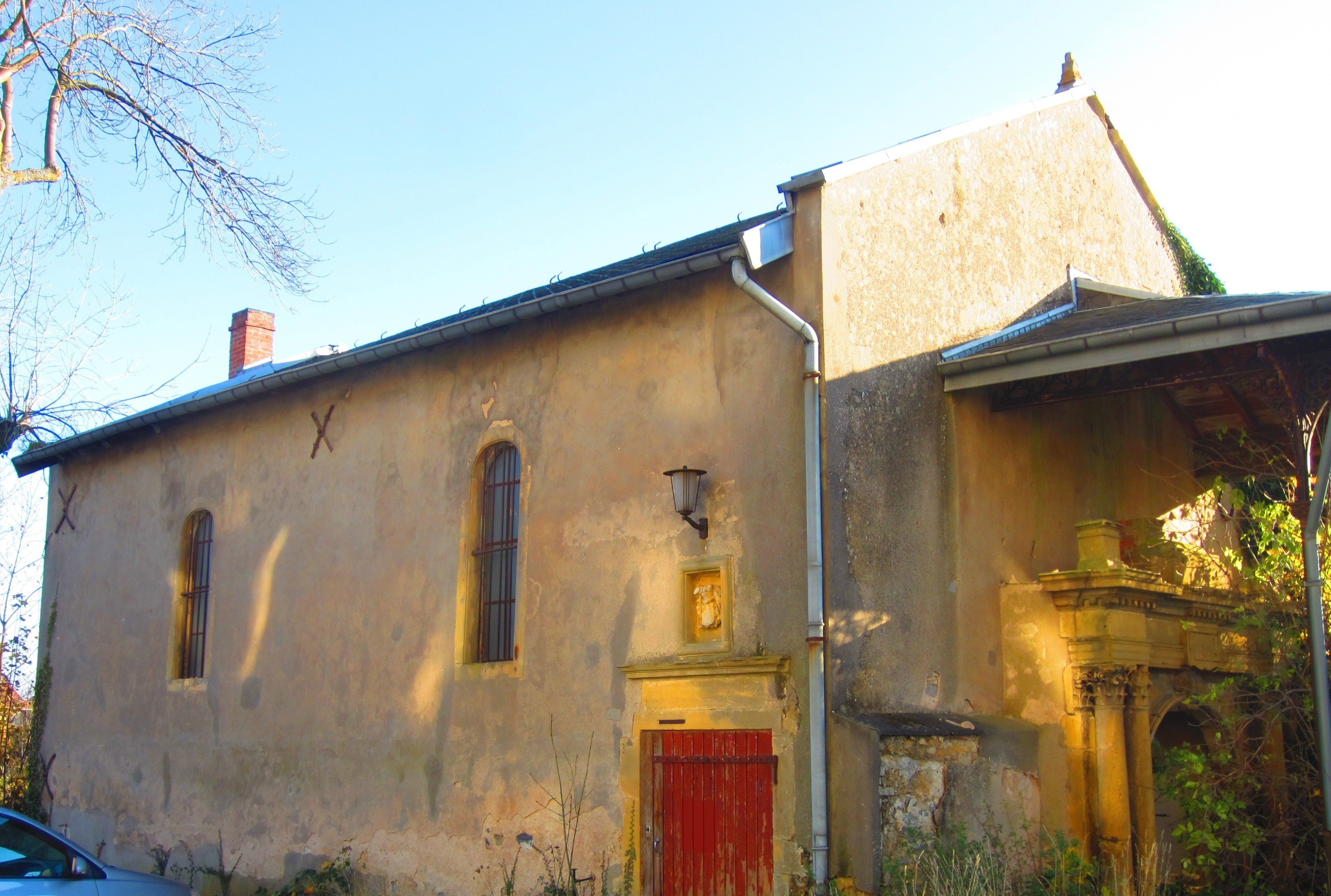 Mercy castle chapel